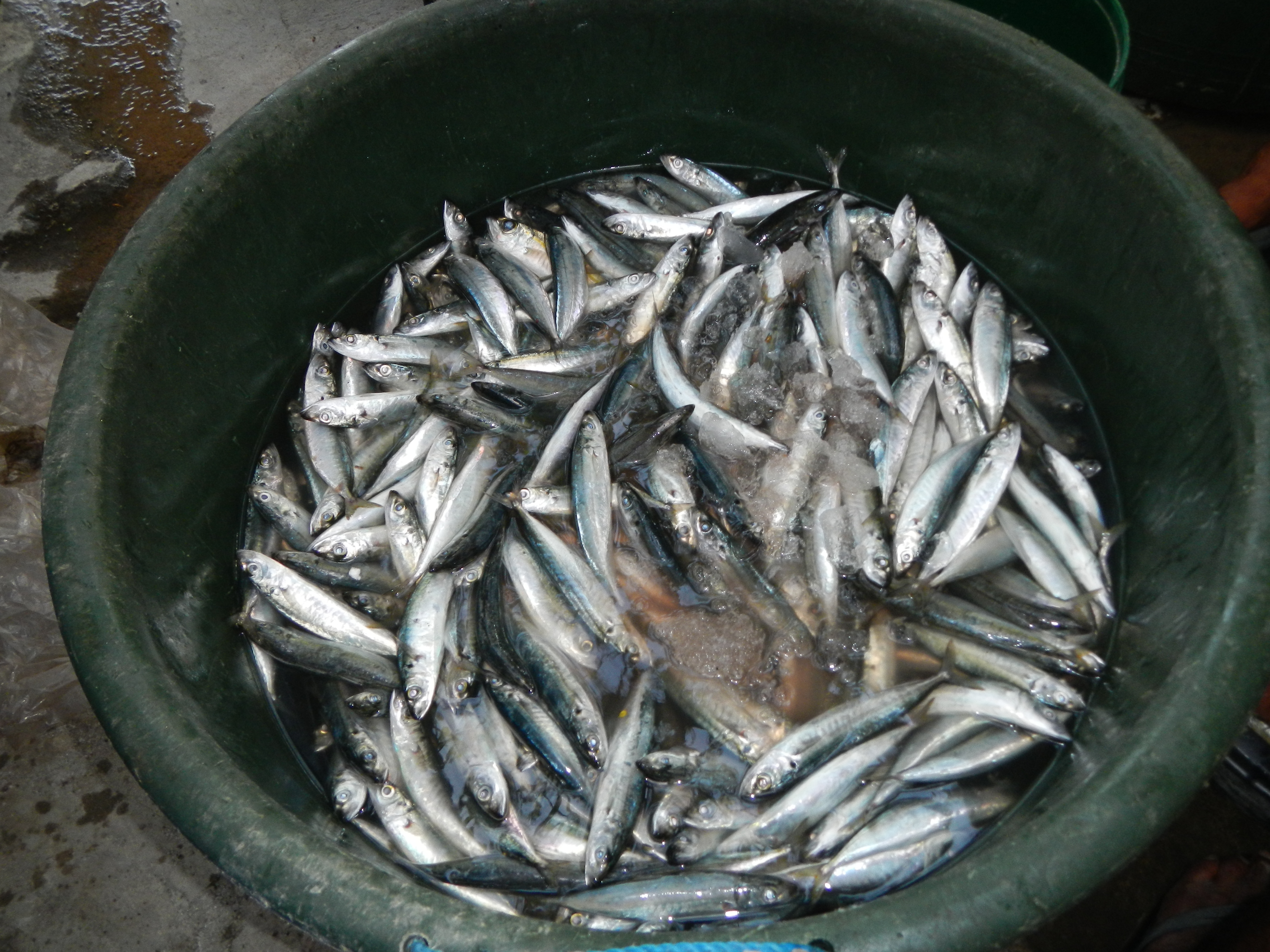 Upload Wizard photos of - the - Hard-tail mackerel (galunggong babae); round scad (galunggong lalaki), muro-aji in Japan. (List of ports in the Philippines[1] Philippine Ports Authority, [2] (under the Department of Transportation and Communications [3]) - a) Port of Calatagan, Batangas[4] [5] [6] [7] with the Passengers' Terminal, the ferry and pumpboats, facing the Calatagan Peninsula between the South China Sea[8] and Balayan Bay, beside Jac Restaurant, b) the vast hectares of land - the Baluarte Estates, Polo fields, and greens and horses of Don Enrique Zobel Hacienda, beside c) Barangay Gulod junction, crossing, and terminal, stop of jeepney and buses going to Nasugbu and Lian, Batangas.